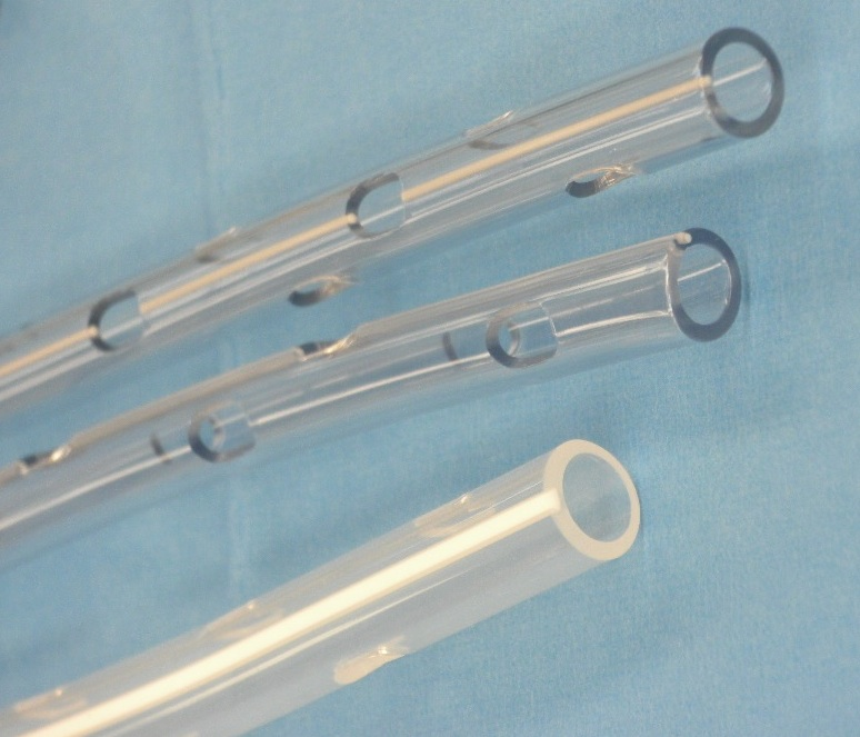 Chest tube drainage holes in a variety of chest tubes.